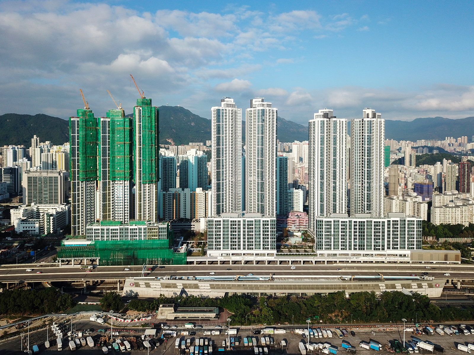 Cullinan West